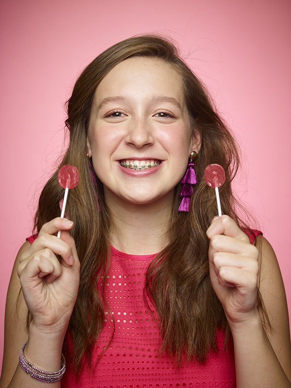 American child entrepreneur Alina Morse with two Zollipops from her company